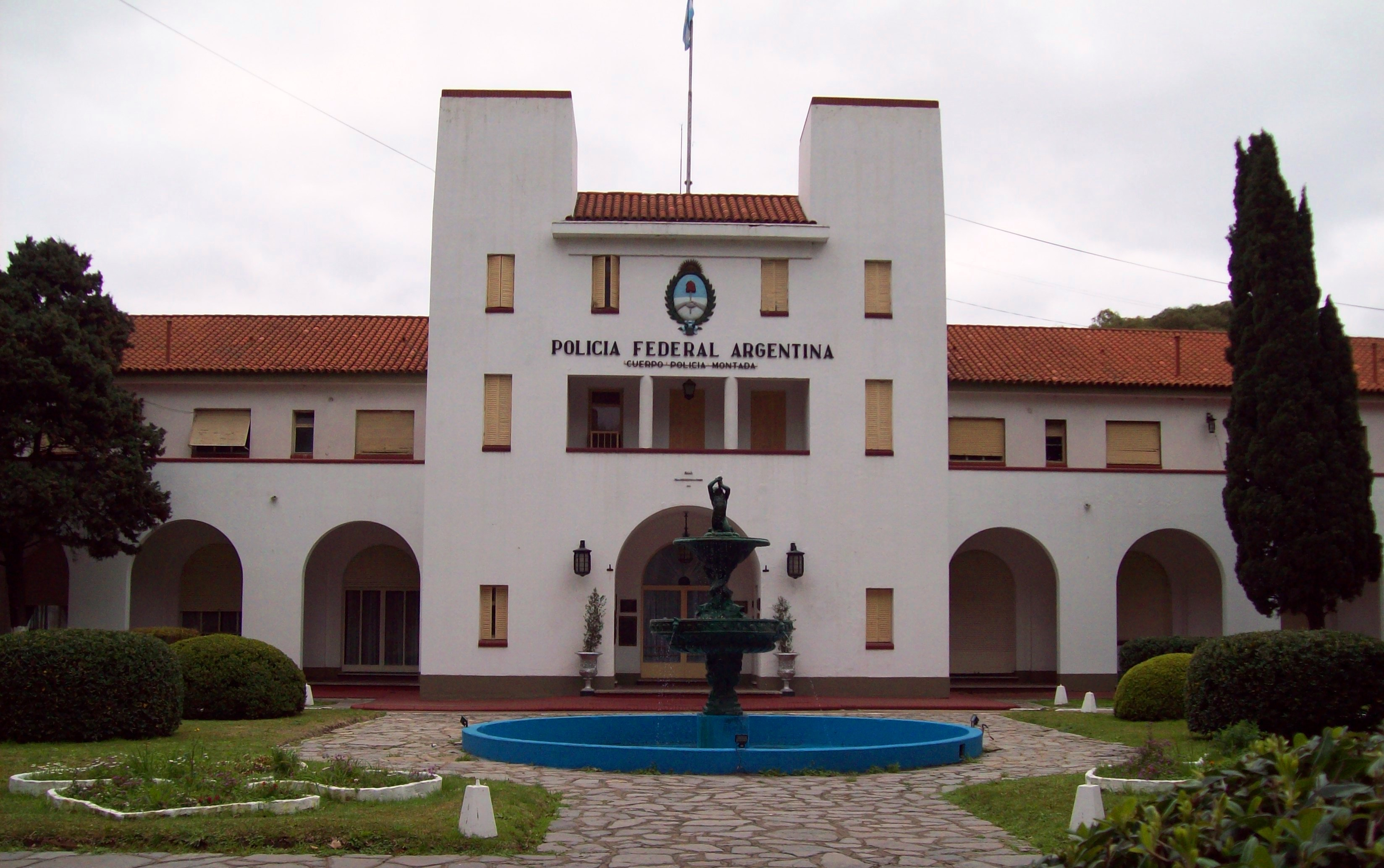 Headquarters of the Mounted Police unit of the Argentine Federal Police, on Figueroa Alcorta Avenue, Palermo, Buenos Aires.